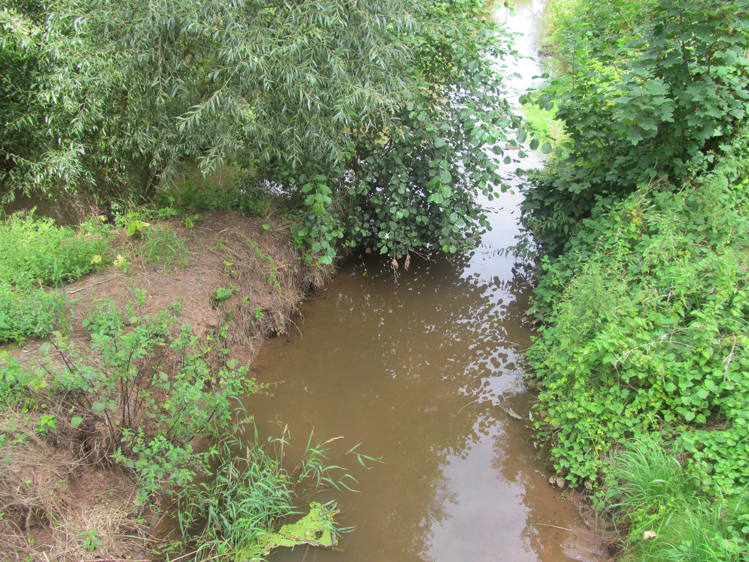 Confluence of Podvinecký potok and Blšanka (on left) in Kryry